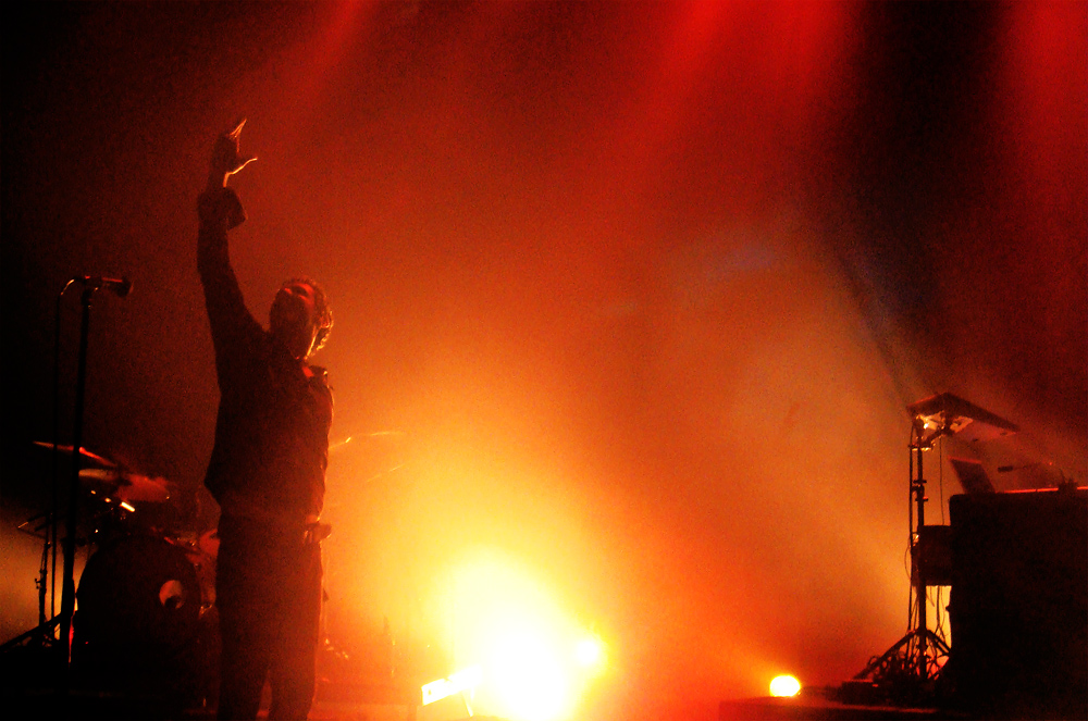 Jonathan Donahue performing in Copenhagen with Mercury Rev, november 19th, 2008.